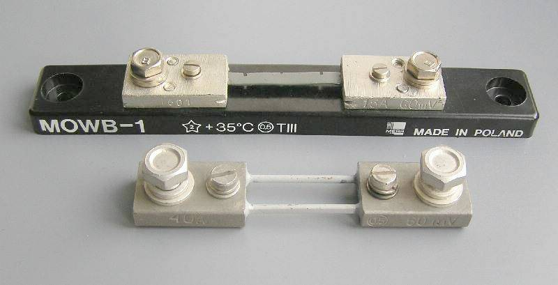 Shunt resistors: Top - 15A / 60mV, Class 0.5, produced by MERA, 1987 At the bottom - 40A / 60mV, Class 0.5, produced by MERA LUMEL, 1991